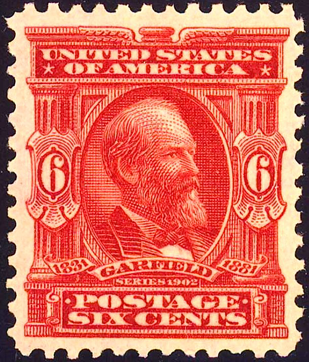 US Postage stamp: James Garfield, Issue of 1902, 6c